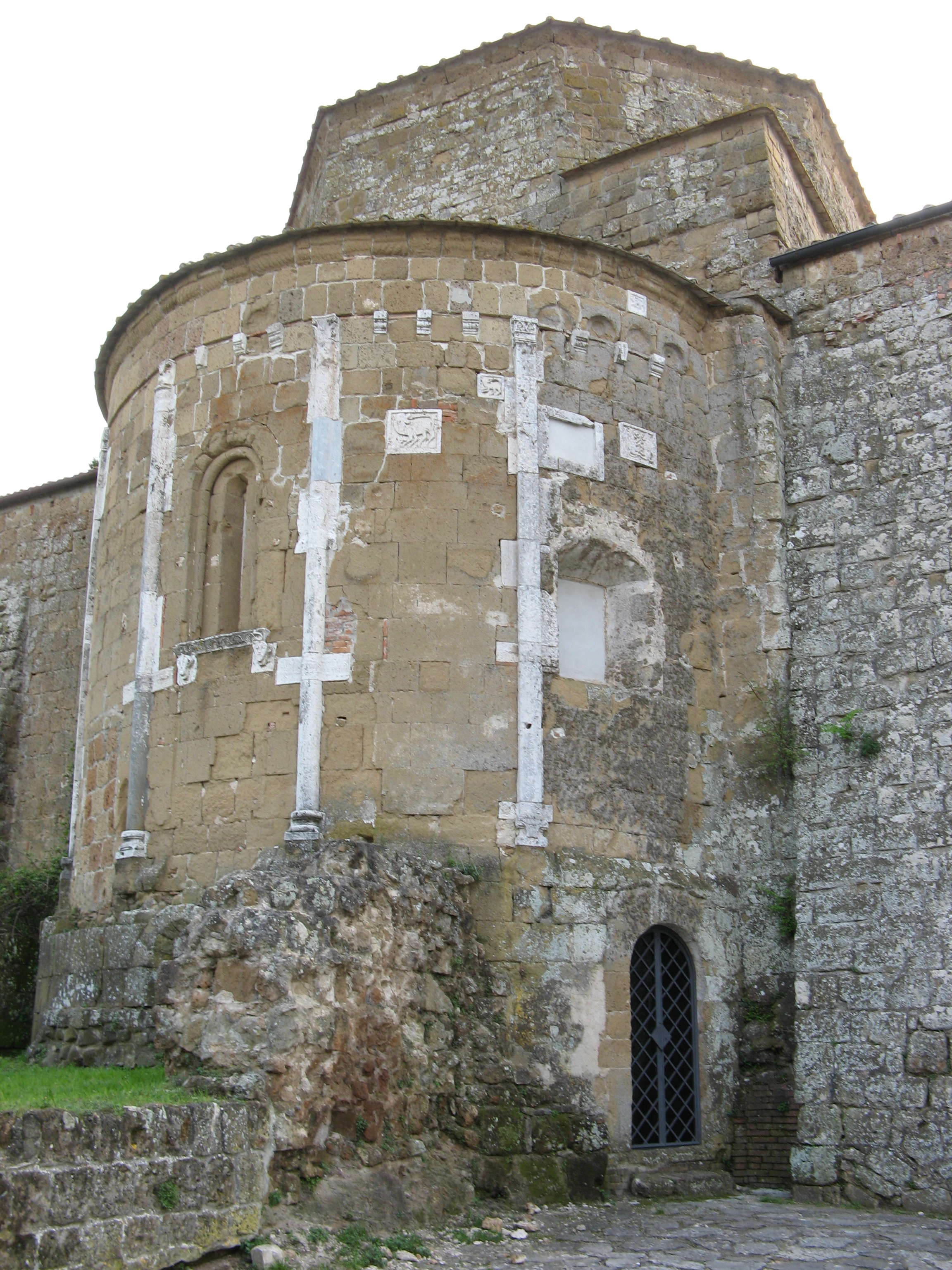 View of apse of duomo of Sovana (Grosseto)